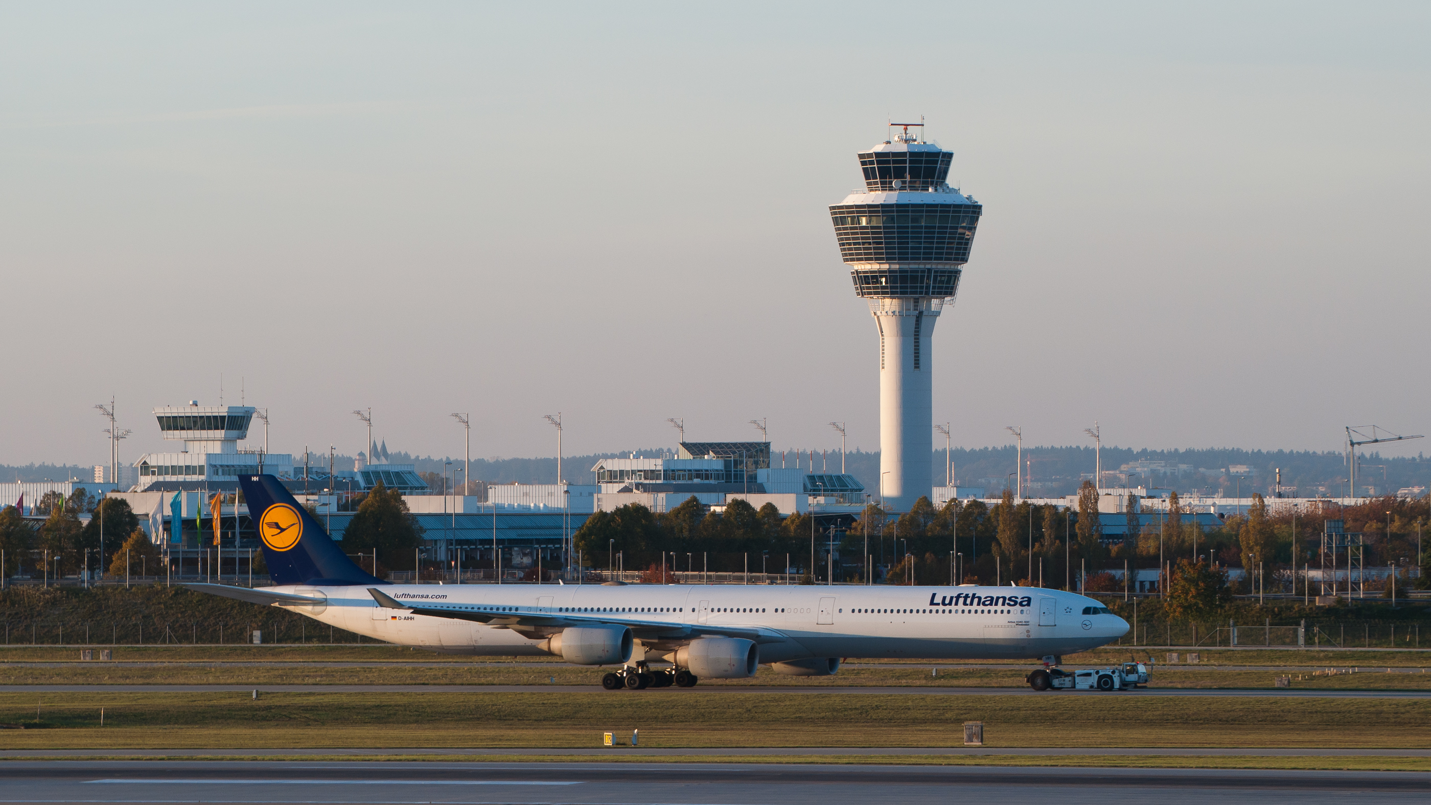 Lufthansa Airbus A340-642 (D-AIHH) at Munich Airport (IATA: MUC; ICAO: EDDM).